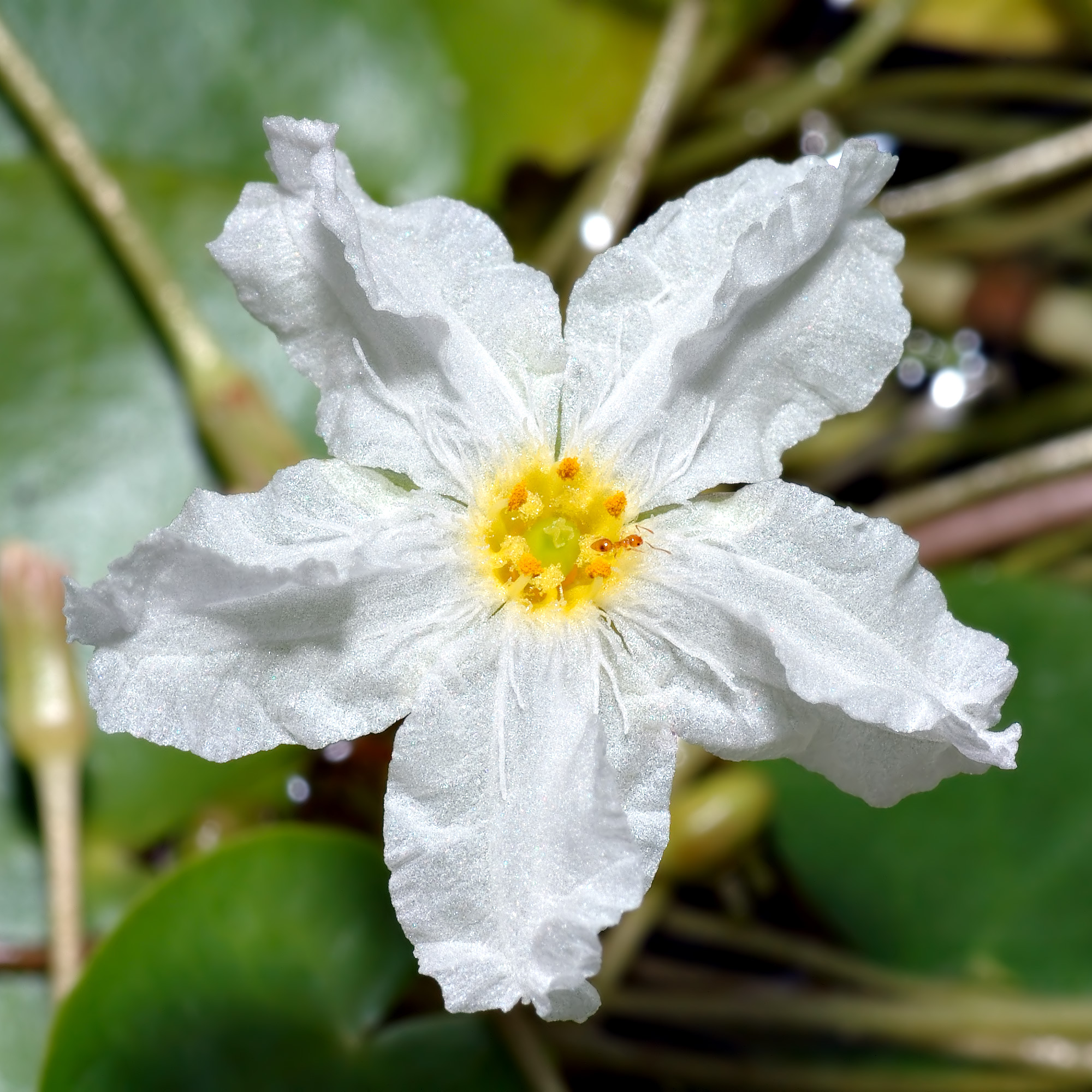 This image shows a plant of the species Nymphoides ezannoi.